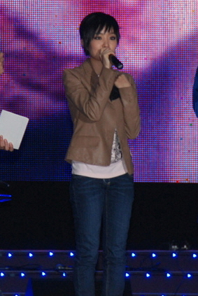 Younha on September 27, 2008